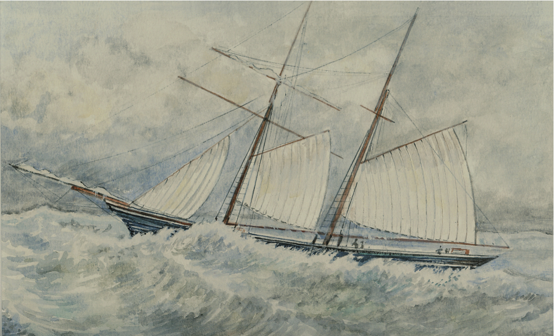 Scan of original watercolour painting of the Schooner Zenobia. Launched on July 21 1868. The ship was lost at sea sometime between May 16th and June 2nd, 1887 under Captain Samuel Fitzwalter. The painting is a depiction by his grandson, Samuel Edward James Fitzwalter.